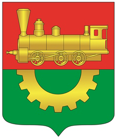 Coat of Arms of Baranavichy, Belarus